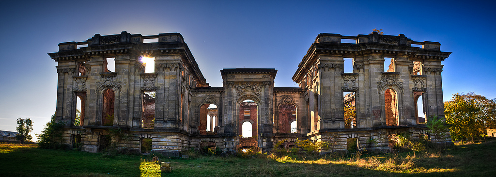 Cantacuzino Palace from Florești, Prahova county, also known as the Little Trianon of Romania 01